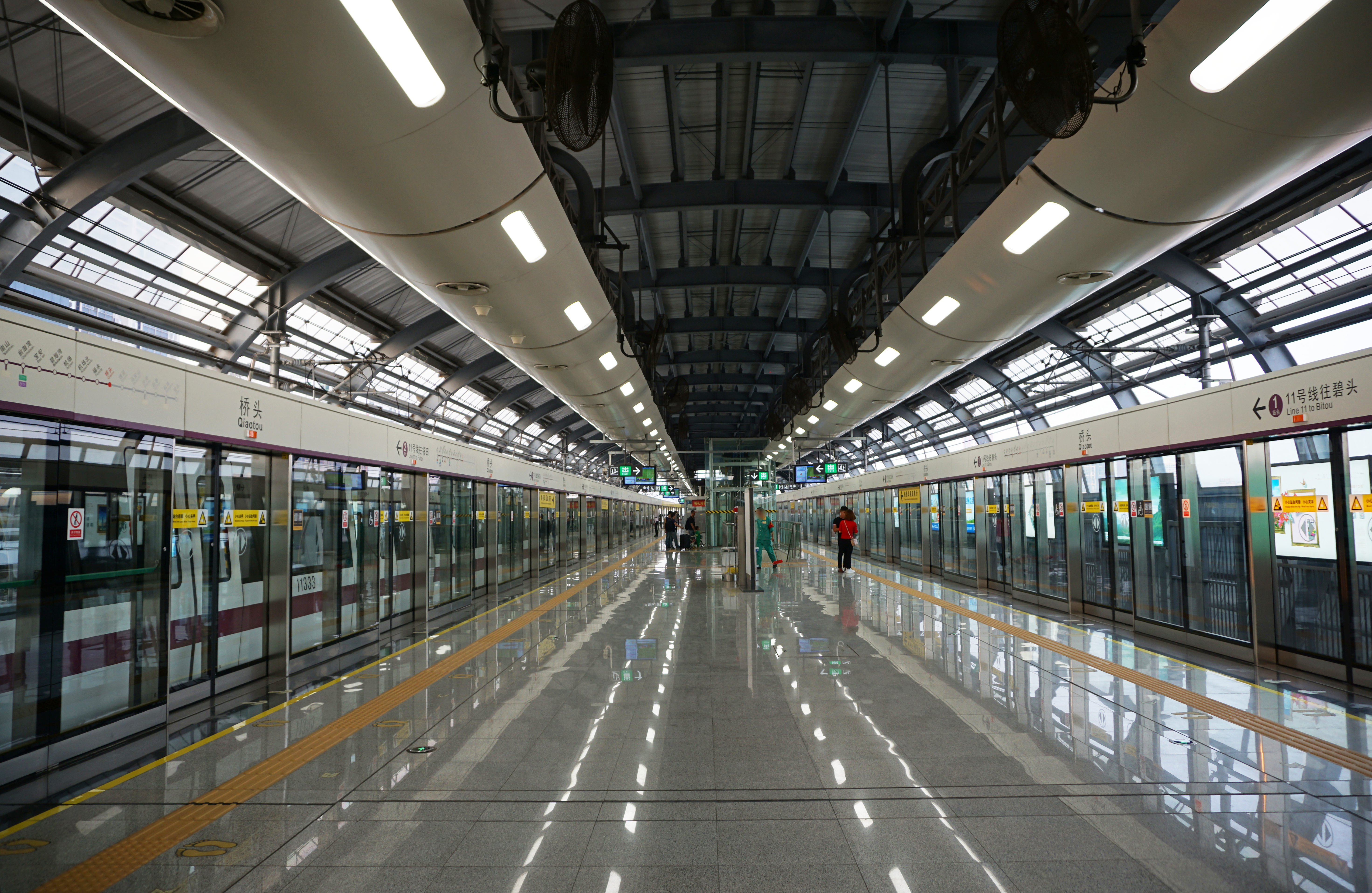 Qiaotou Station in Bao'an, Shenzhen.